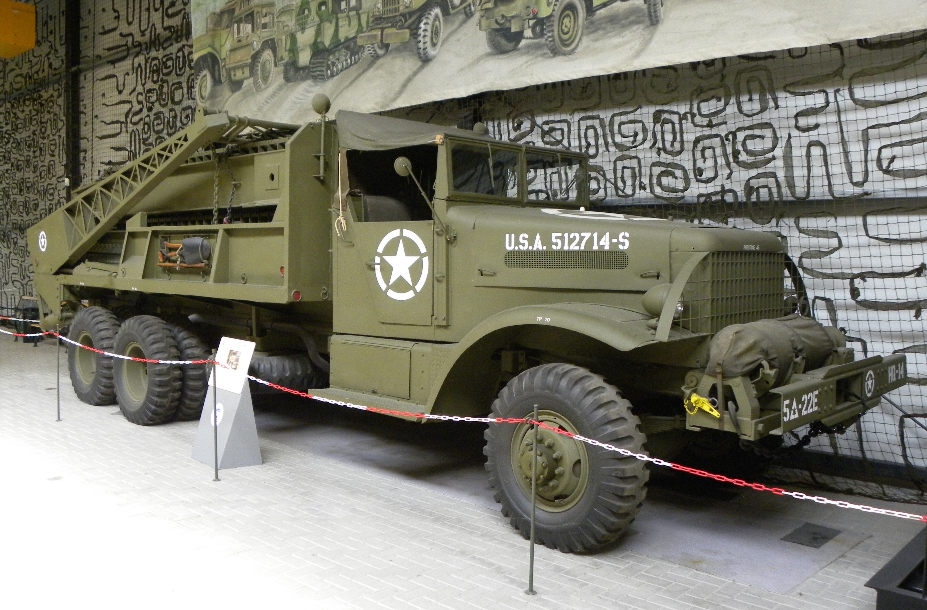 Brockway B 666 Bridge Erecting from Wo-II